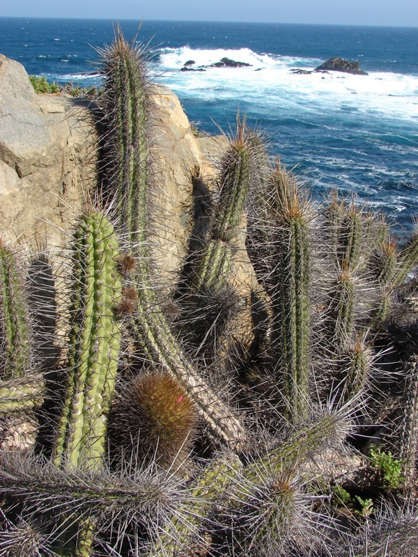 Eulychnias y Neoporterias